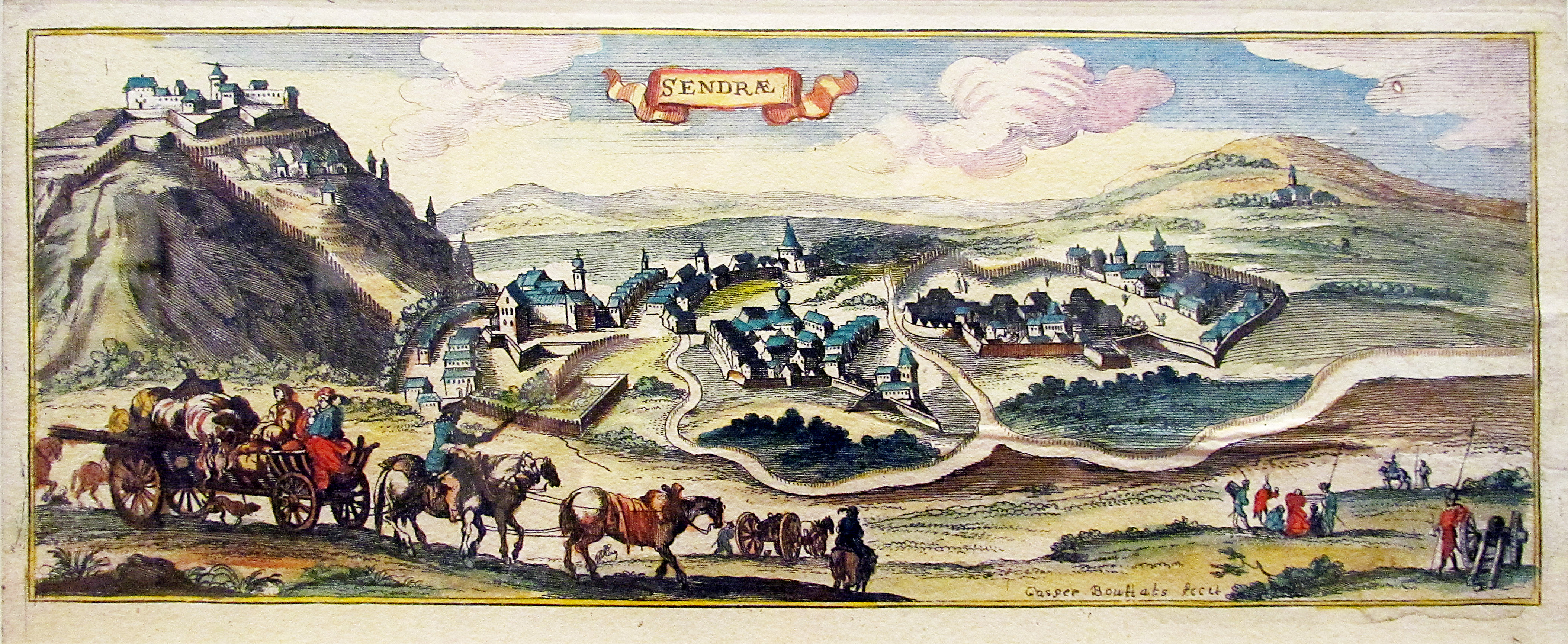 Gaspar Bouttats, Sentandre, 1684, Etching, National Museum of Serbia